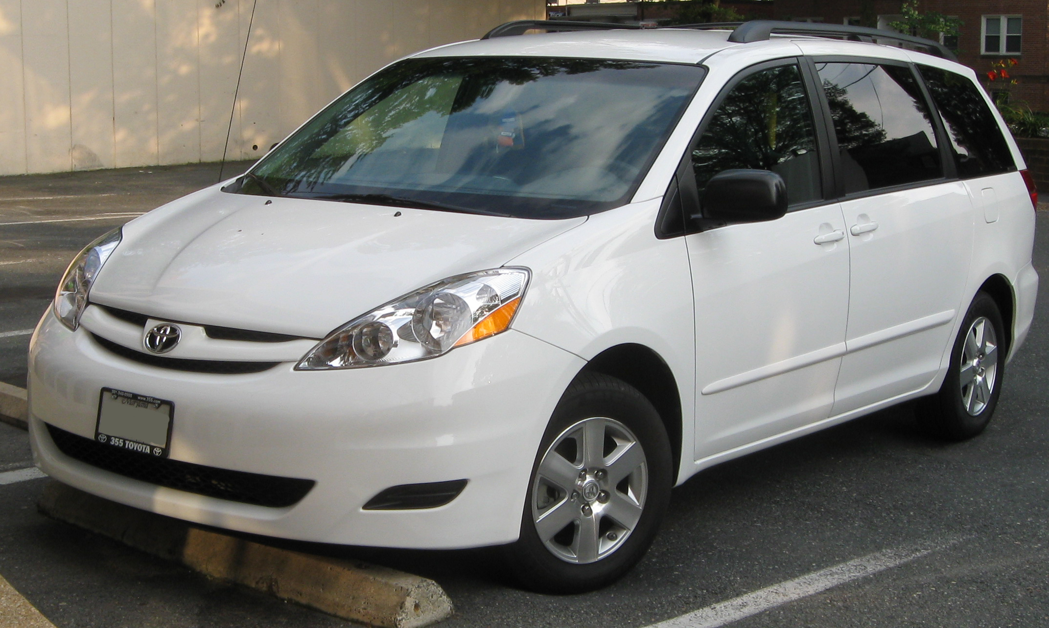 2007-2010 Toyota Sienna photographed in Washington, D.C., USA.